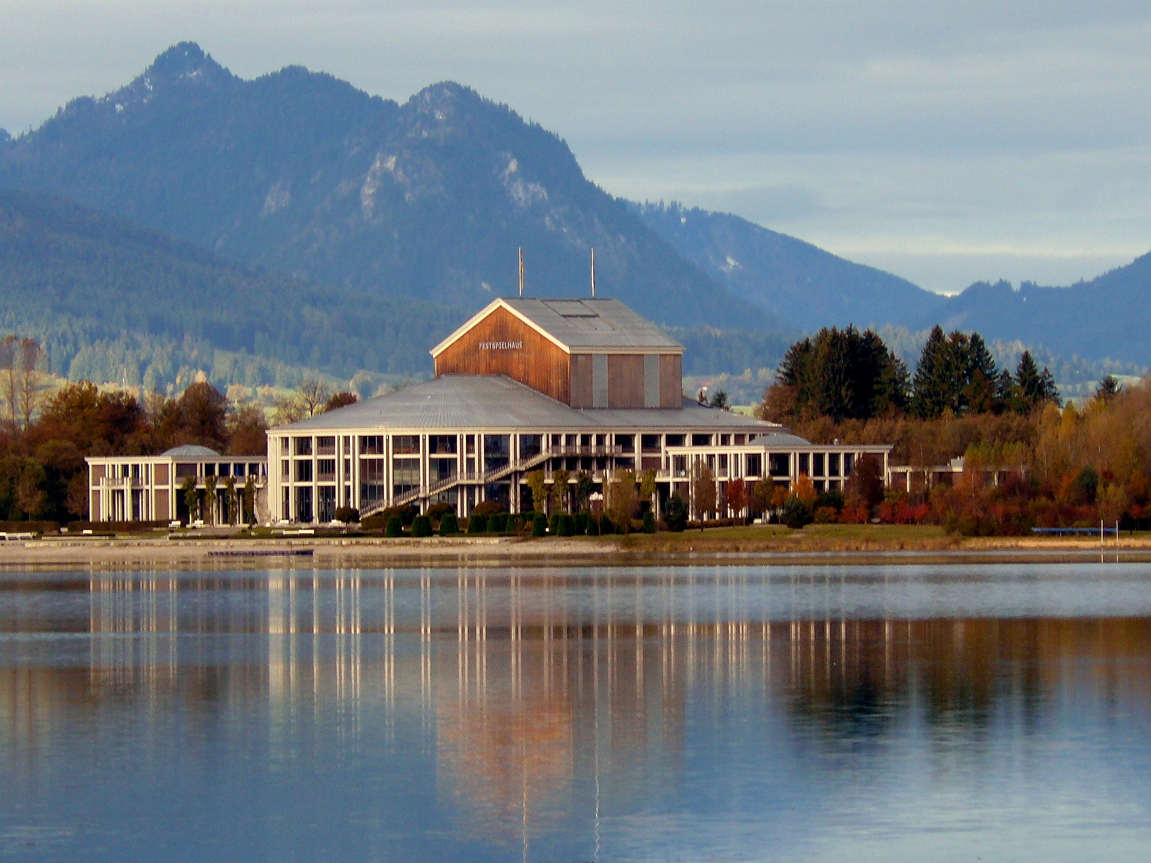 musical theater, Füssen